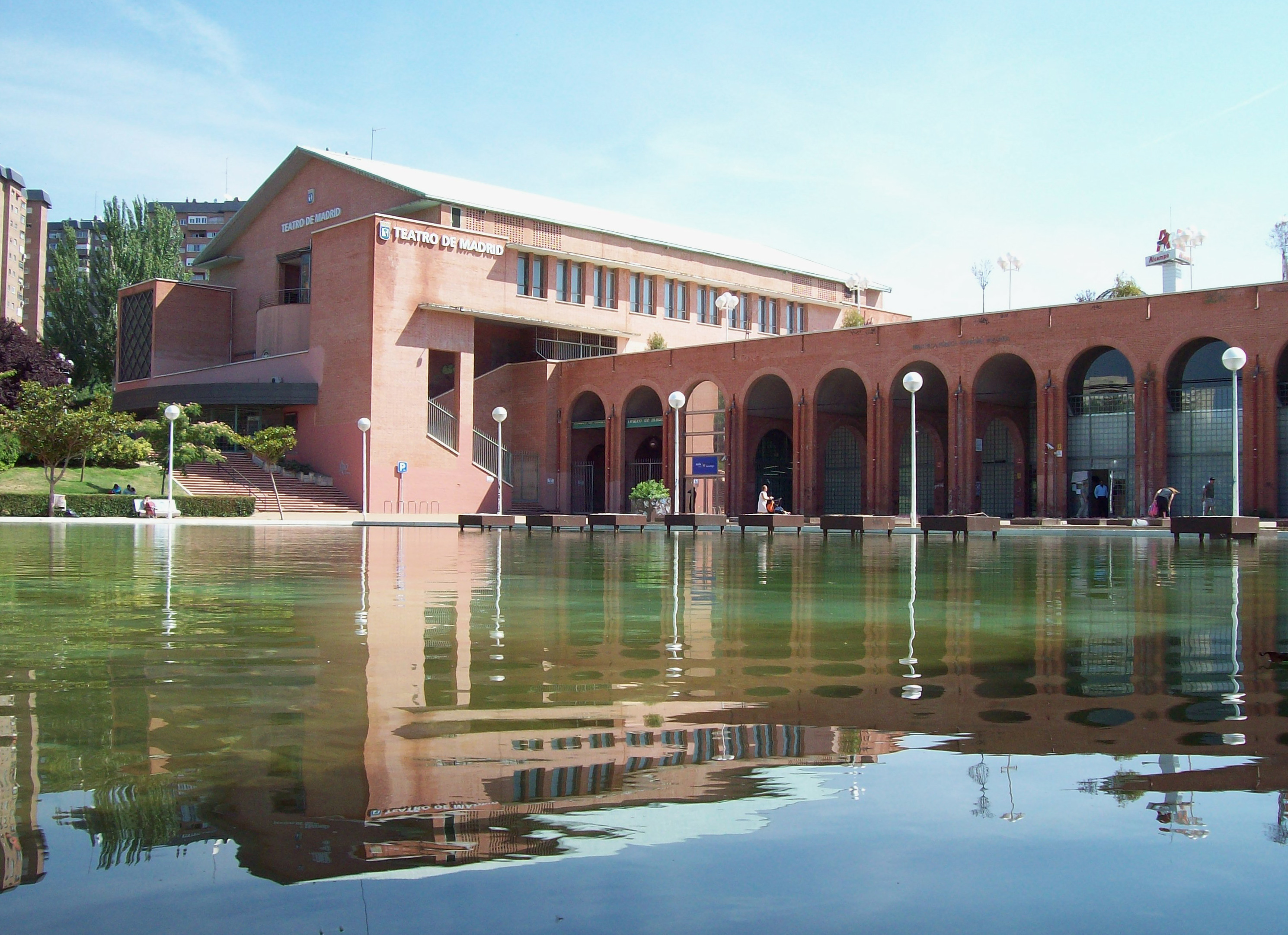 The so-called Teatro de Madrid, a theater in Madrid (Spain). Address: Avenida de la Ilustración (avenue). Inaugurated on January 12, 1992. Architects: Javier San José, Jorge Pacerías and Guillermo Costa.